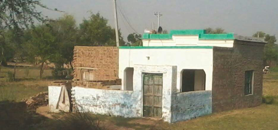 I also Uploaded this Photo on Botala Facebook Page & on website